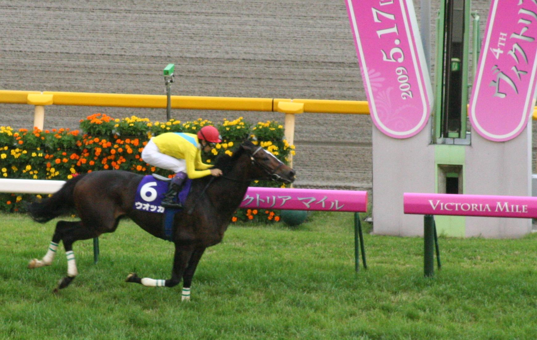 The 4th Victoria Mile (Tokyo Racecourse)